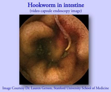 Image Courtesy Dr. Lauren Gerson, Stanford University School of Medicine - still trying to find out more about this image